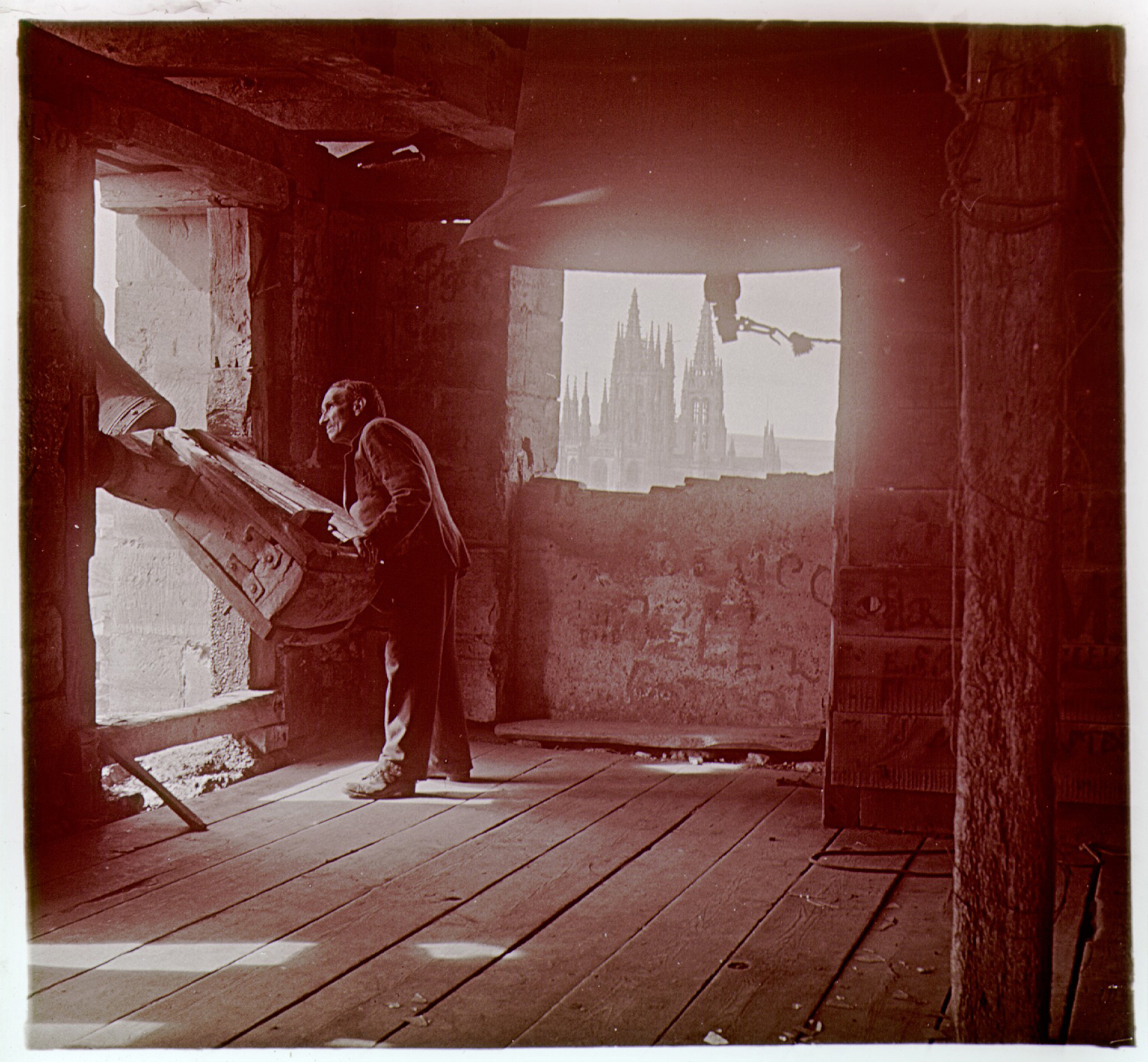 Photo taken by Eustasio Villanueva, watchmaker and amateur photographer, Burgos (Spain), between 1913 and 1929, from the tower of the church of San Gil, at Burgos. In the distance we see the Cathedral of Burgos. This photograph was one of the masterpieces of this author. The original glass plate is preserved in Madrid, at the Institute of Cultural Heritage of Spain. The Archive Villanueva was bought by the Spanish State, and consists of 1,000 stereoscopic slides (positive on glass, to see in three dimensions). Here only selected one of the two images of stereo pair.